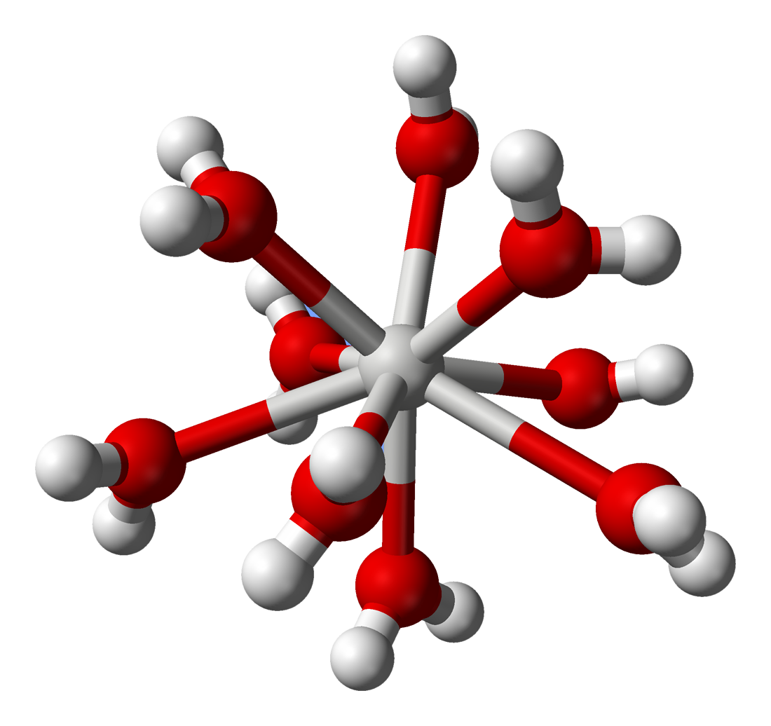 Ball-and-stick model of the coordination of Sc3+ by nine water molecules in the crystal structure of hydrated scandium(III) triflate, [Sc(H2O)~8.0](OTf)3. X-ray crystallographic data from Chem. Eur. J. (2005) 11, 4065-4077. Model constructed in CrystalMaker 8.1. Image generated in Accelrys DS Visualizer.